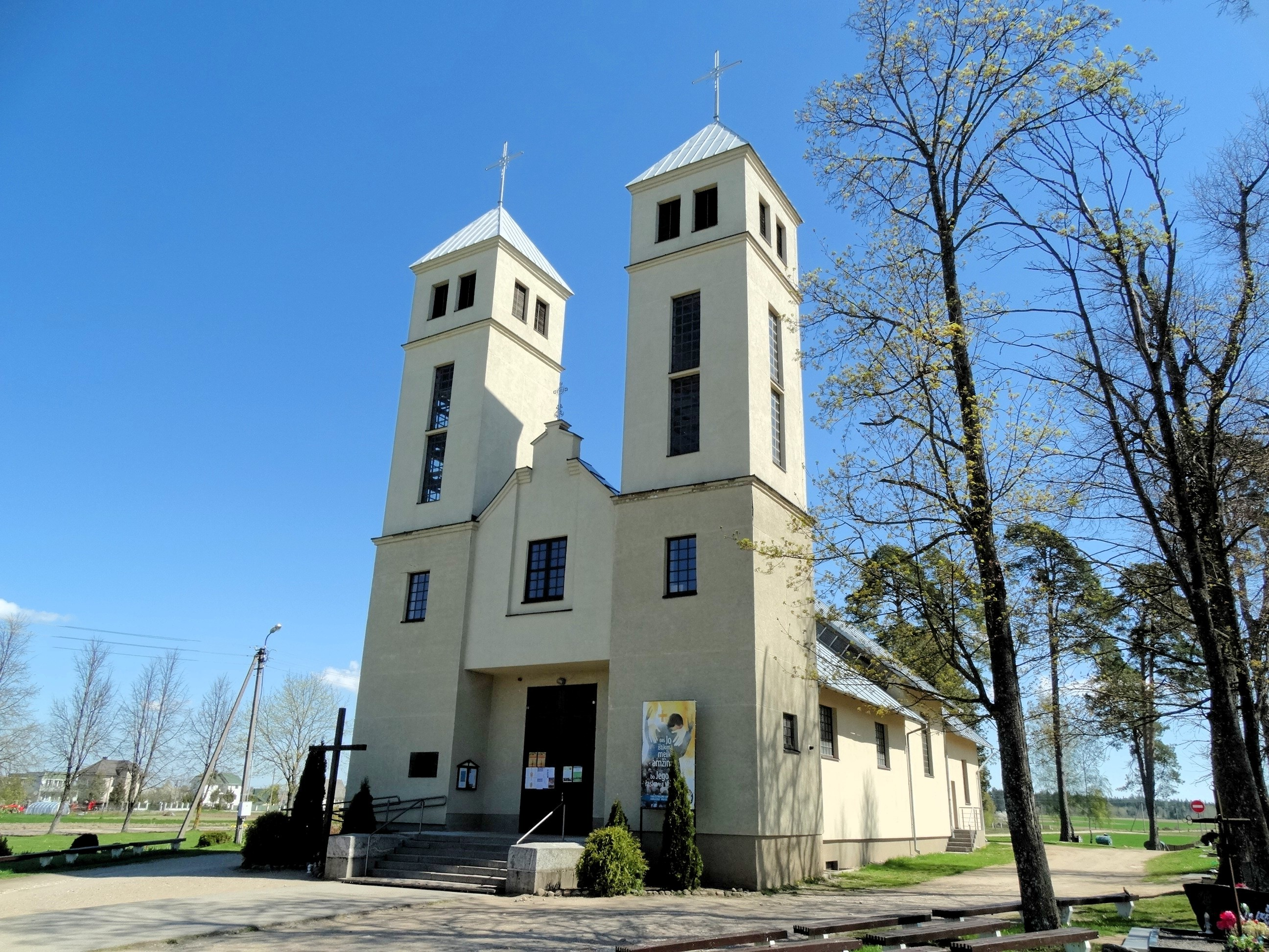 Catholic Church, Šalčininkai, Lithuania